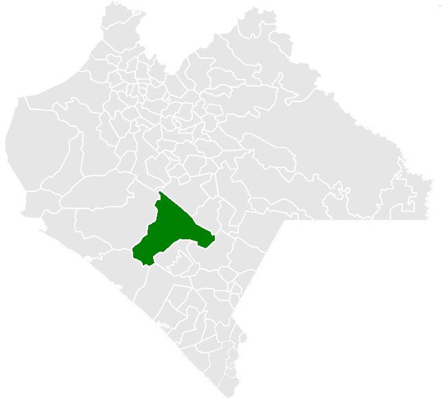 Map of the Municipalty of La Concordia in the State of Chiapas, México.